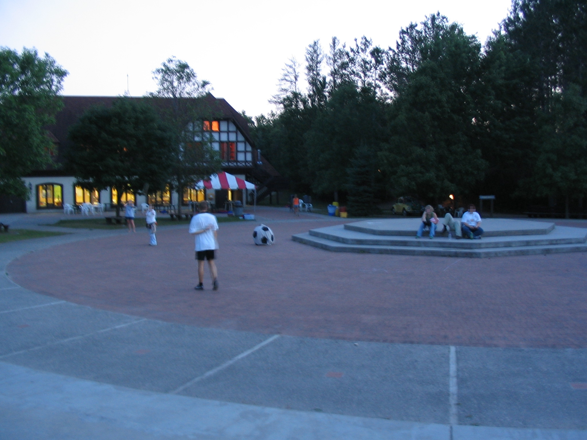 The Marktplatz (central square) at Waldsee, Concordia Language Village's German language and culture immersion camp near Bemidji, Minnesota, USA, pictured at dusk. In the background is the Gasthof, which serves as the dining hall and primary indoor activity area. The yellow Volkswagen Beetle within the trees has been repainted by villagers and often sports magnetic German words formed into sentences by the students.